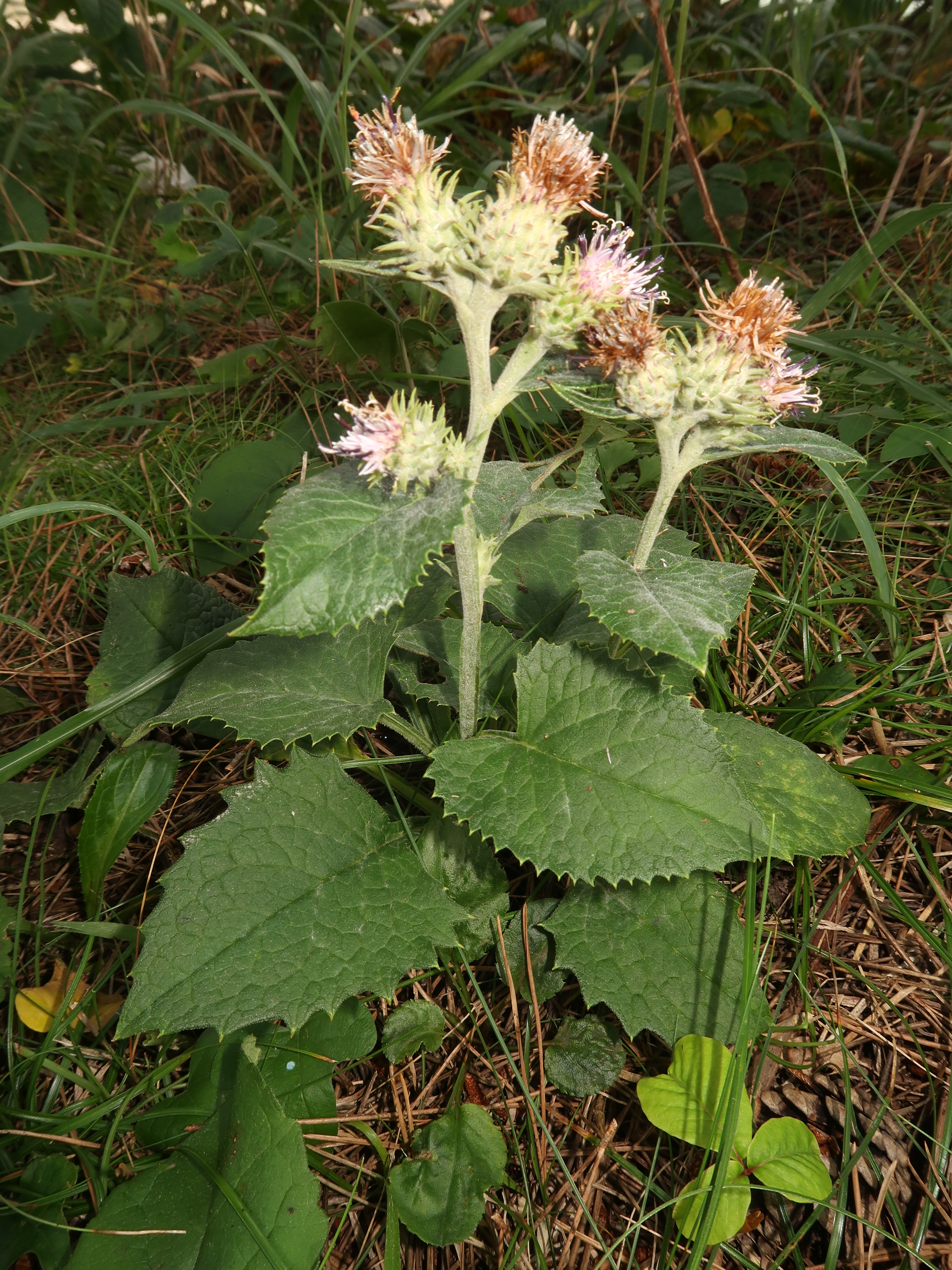 Saussurea hosoiana, Rokkasho village, Aomori pref., Japan